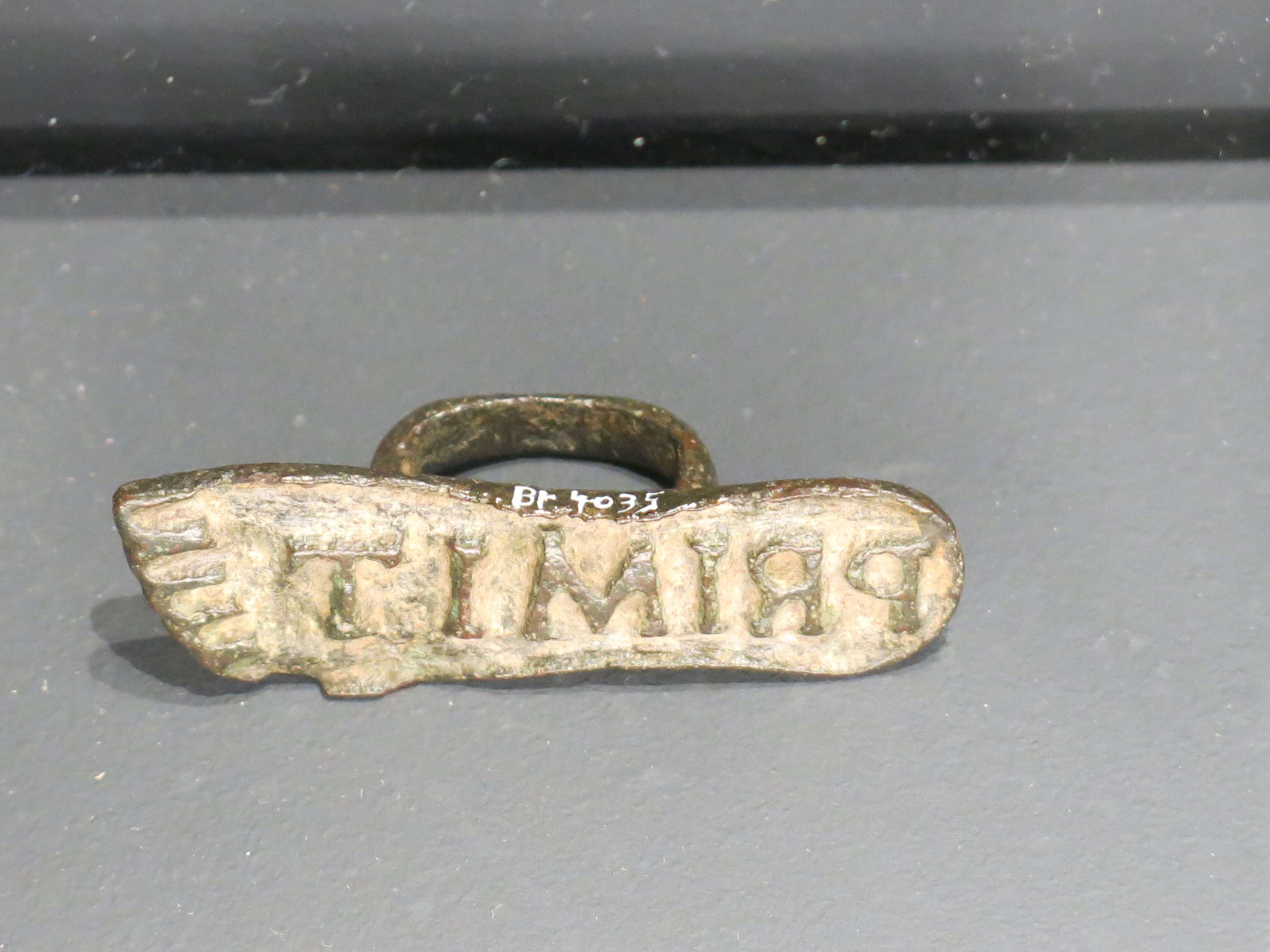 Signaculum PRIMIT (=First). The signaculums were used to affix the mark of the manufacturer onto an object. Roman era. Campana collection purchase 1861. Louvre museum (Paris, France).